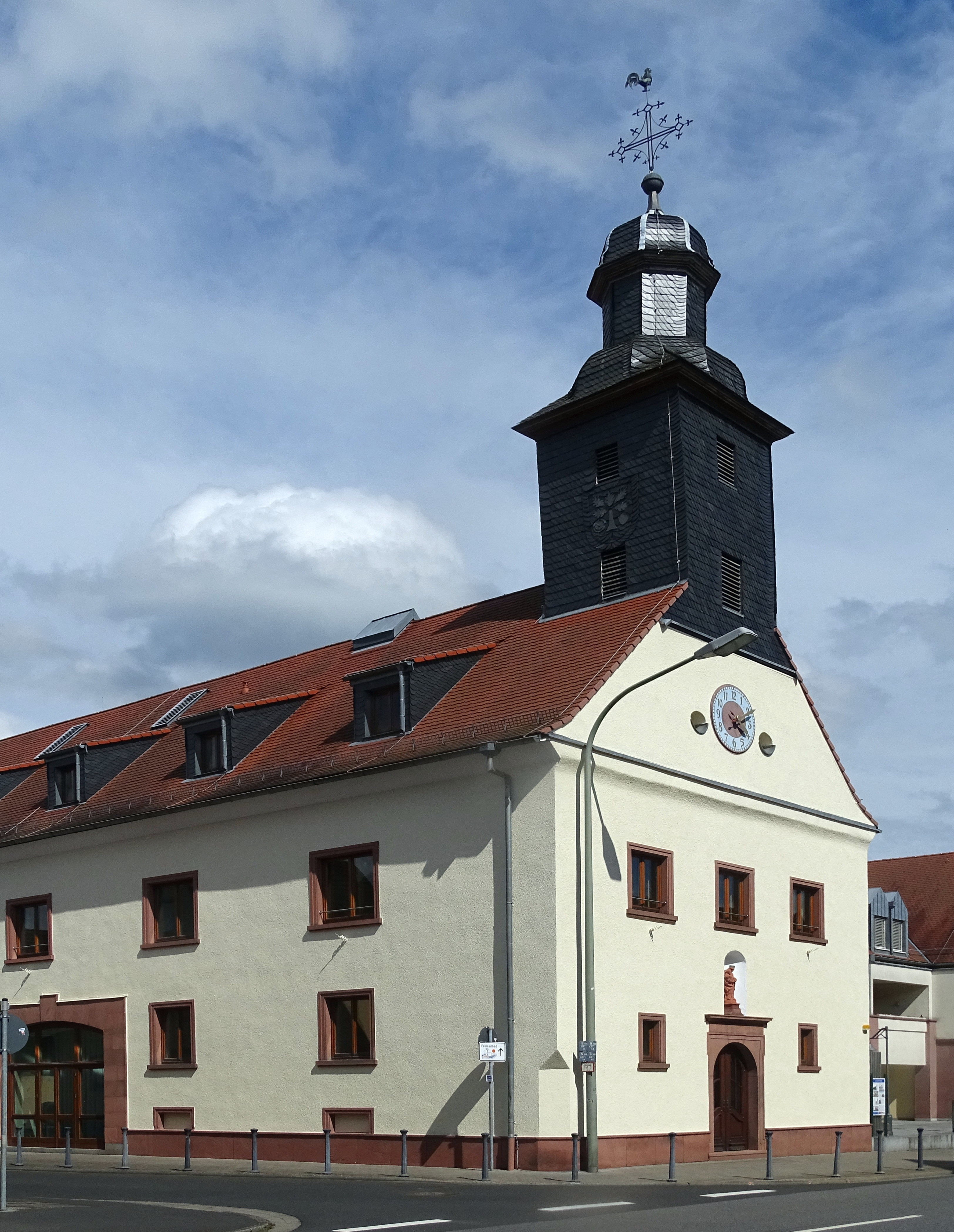 Kleinostheim, Aschaffenburger Straße 1: formerly church of Laurentius, now music school